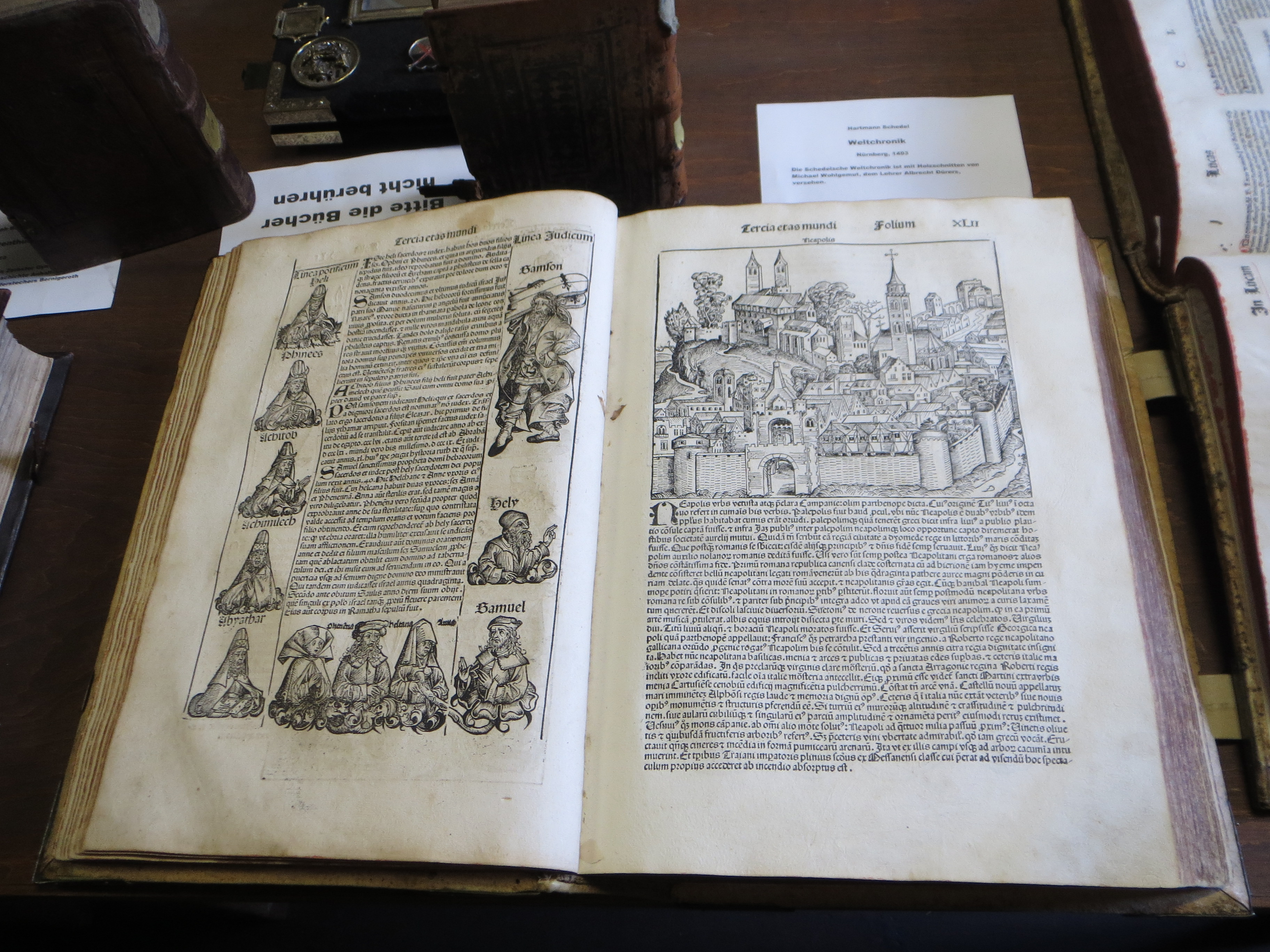 Francisceumsbibliothek Schedelsche Weltchronik